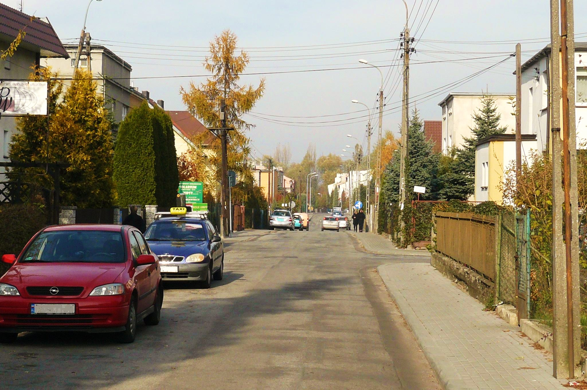 Poznan, Torunska Street.